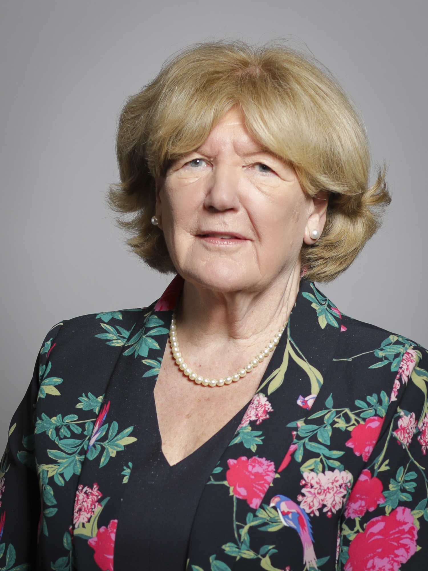 Official portrait of Baroness Taylor of Bolton 3×4 portrait of Baroness Taylor of Bolton